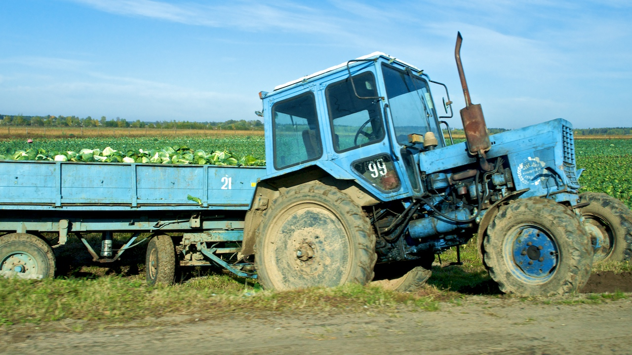 Blue tractor, field of cabbage, Belarus